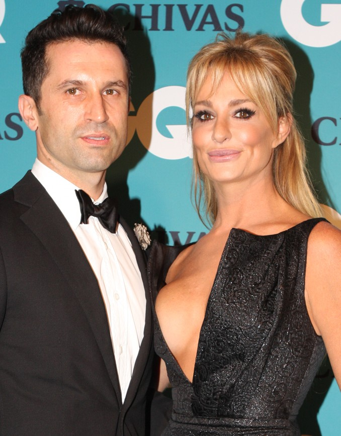 Taylor Armstrong